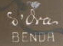 Signature of the photographers Madame d'Ora aka Dora Kallmus (1881-1963) and Arthur Benda (1885-1969)